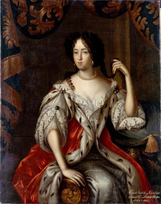 Elisabeth Henriette of Hesse-Kassel (1661-1683), first spouse of Frederick I of Prussia